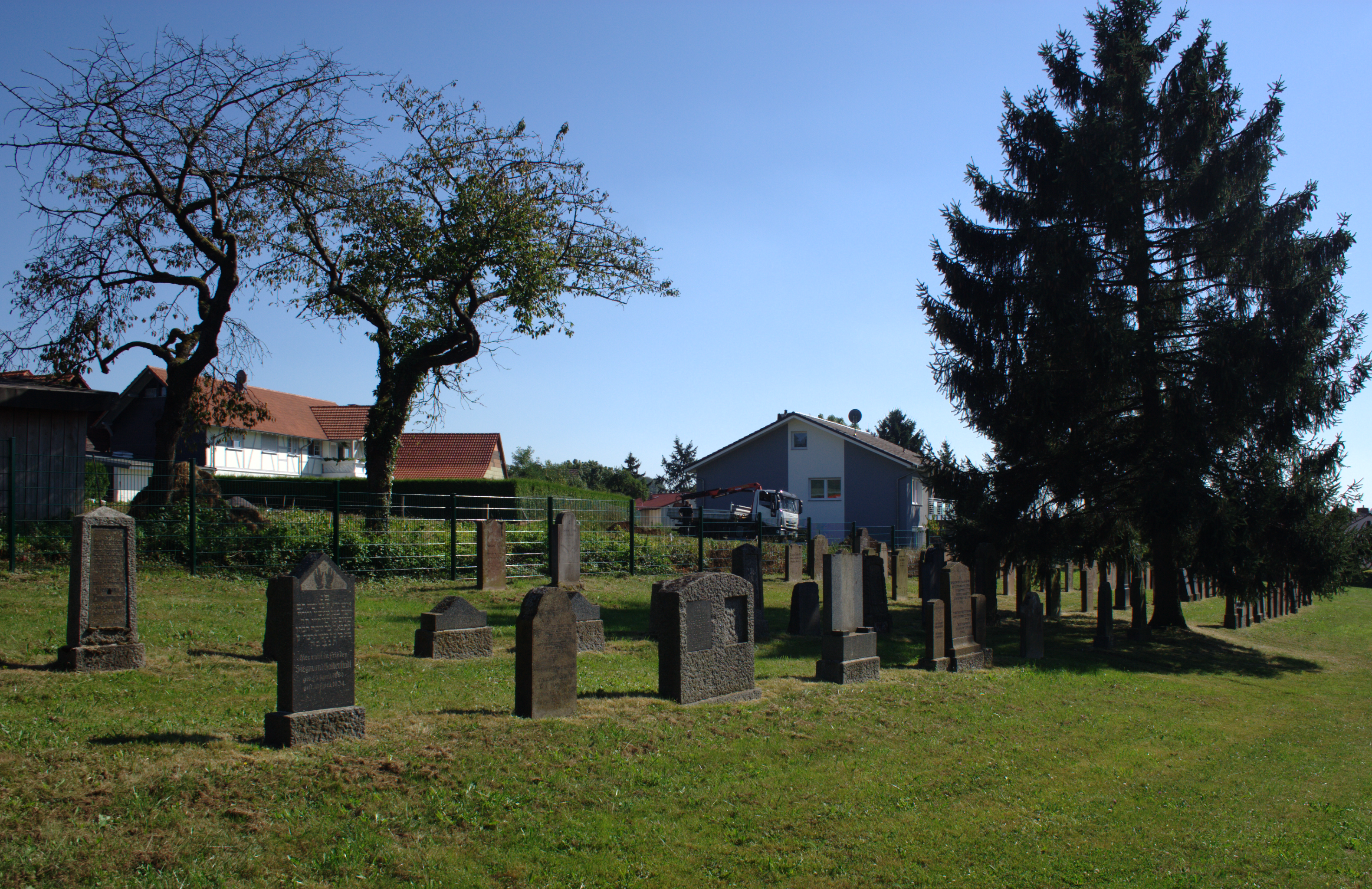 Jewish cemetery in Ober-Seemen Gedern / Hesse / GermanyThis is a photograph of an architectural monument.